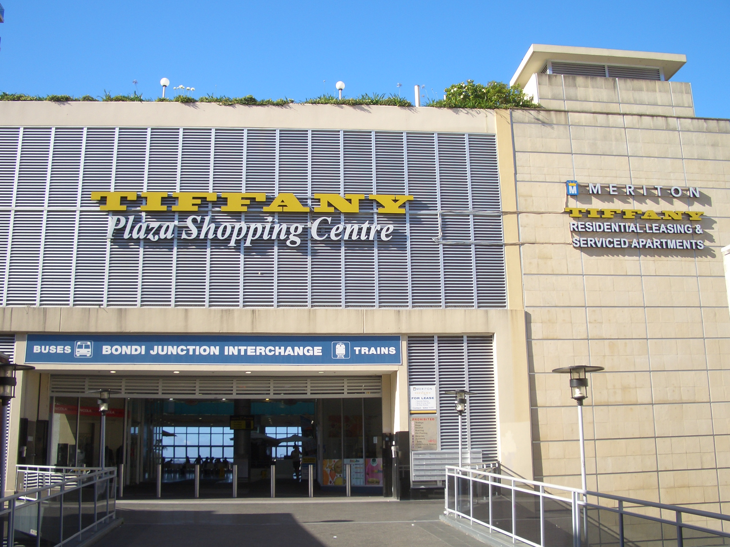 Tiffany Plaza, entrance to Bondi Junction railway station and bus interchange